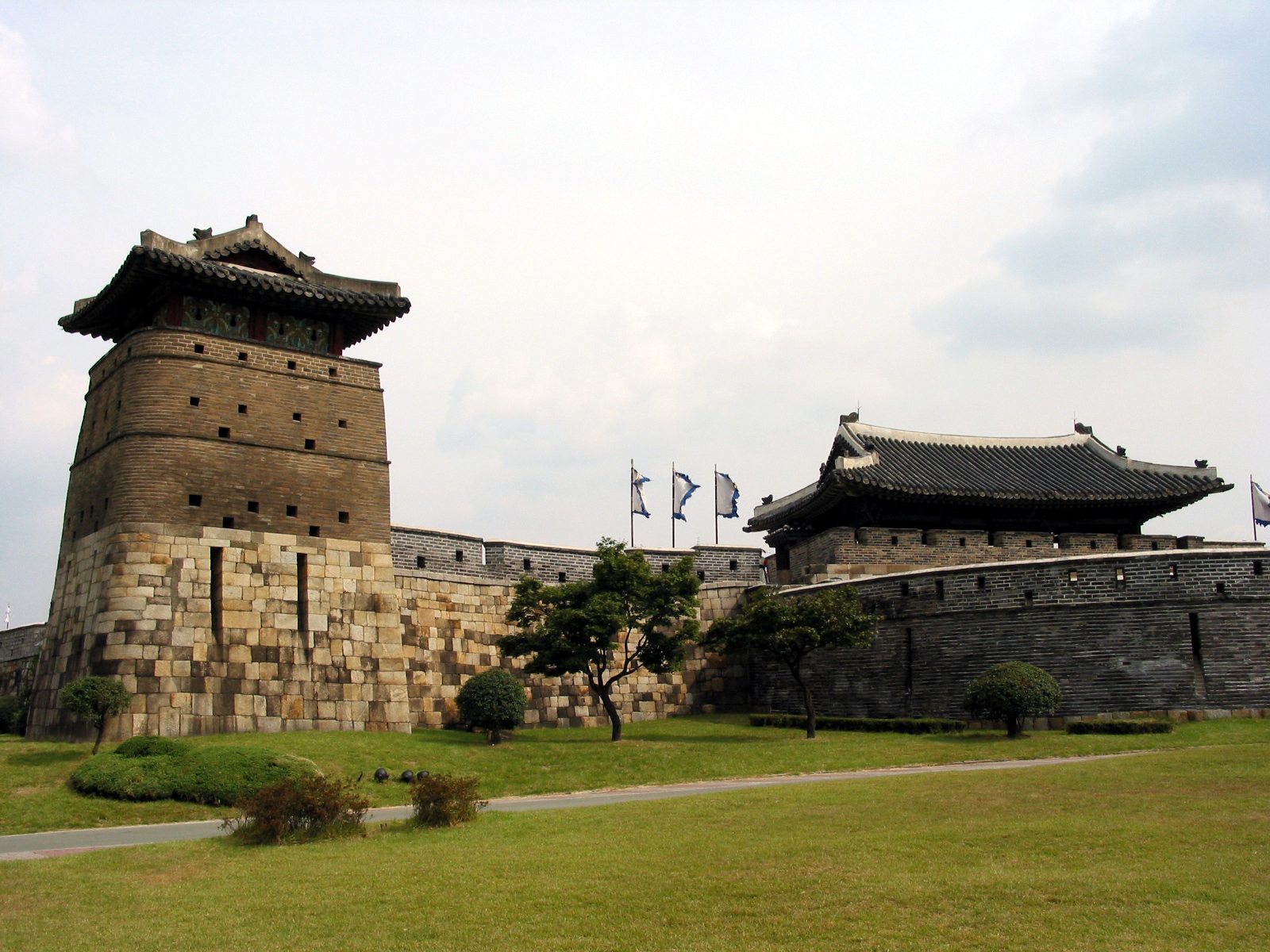 A view of the west gate of Hwaseong Fortress and its accompanying watch tower.